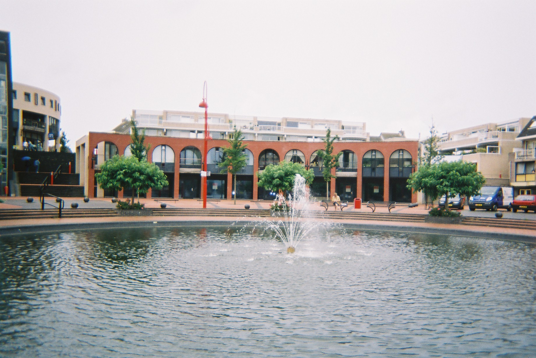 Zwaaikom square in the center of Katwijk, at the end of the Prince Hendrikcanal